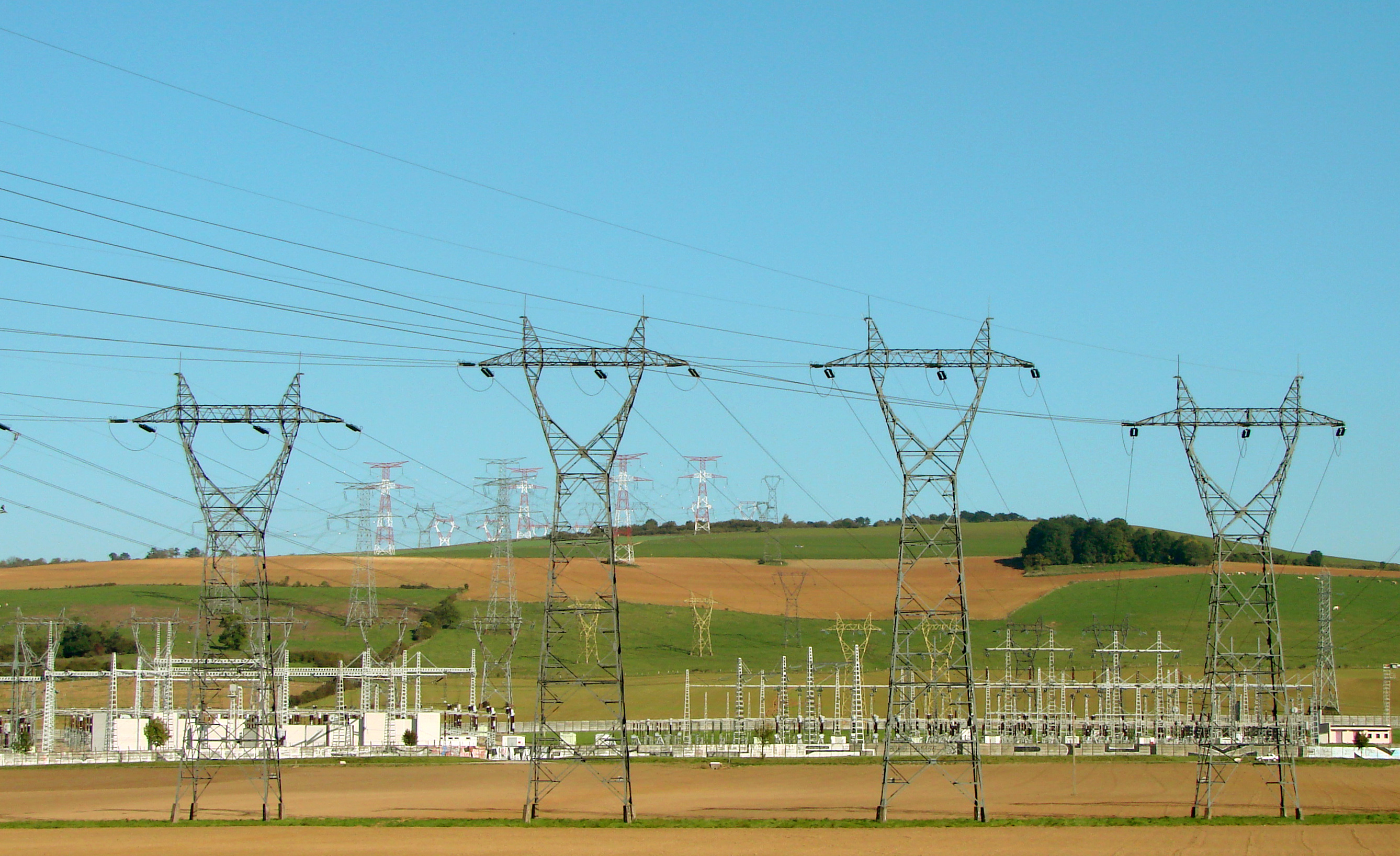 Powerline towers in France.